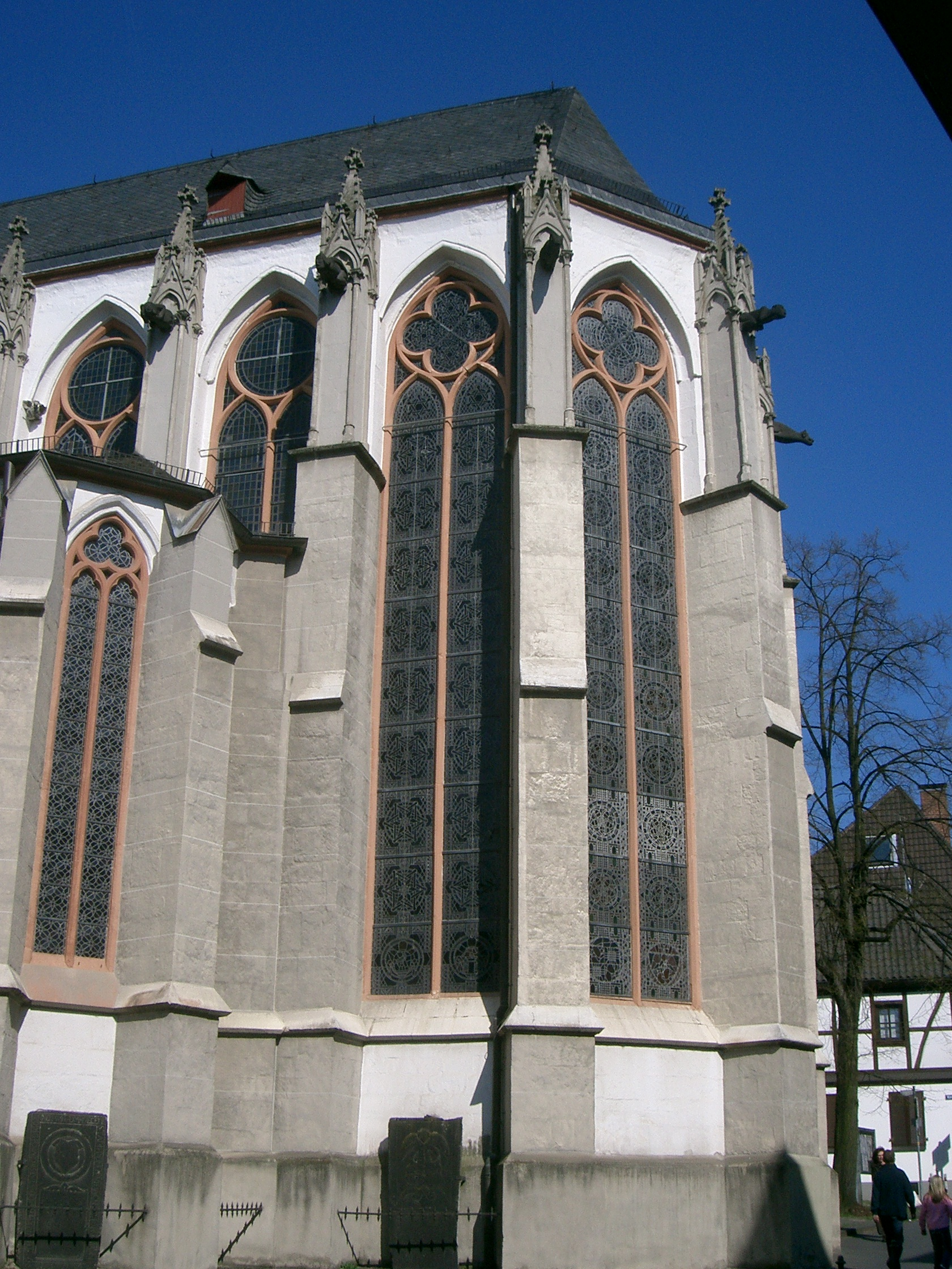 Siegburg, church St. Servatius, choir from south